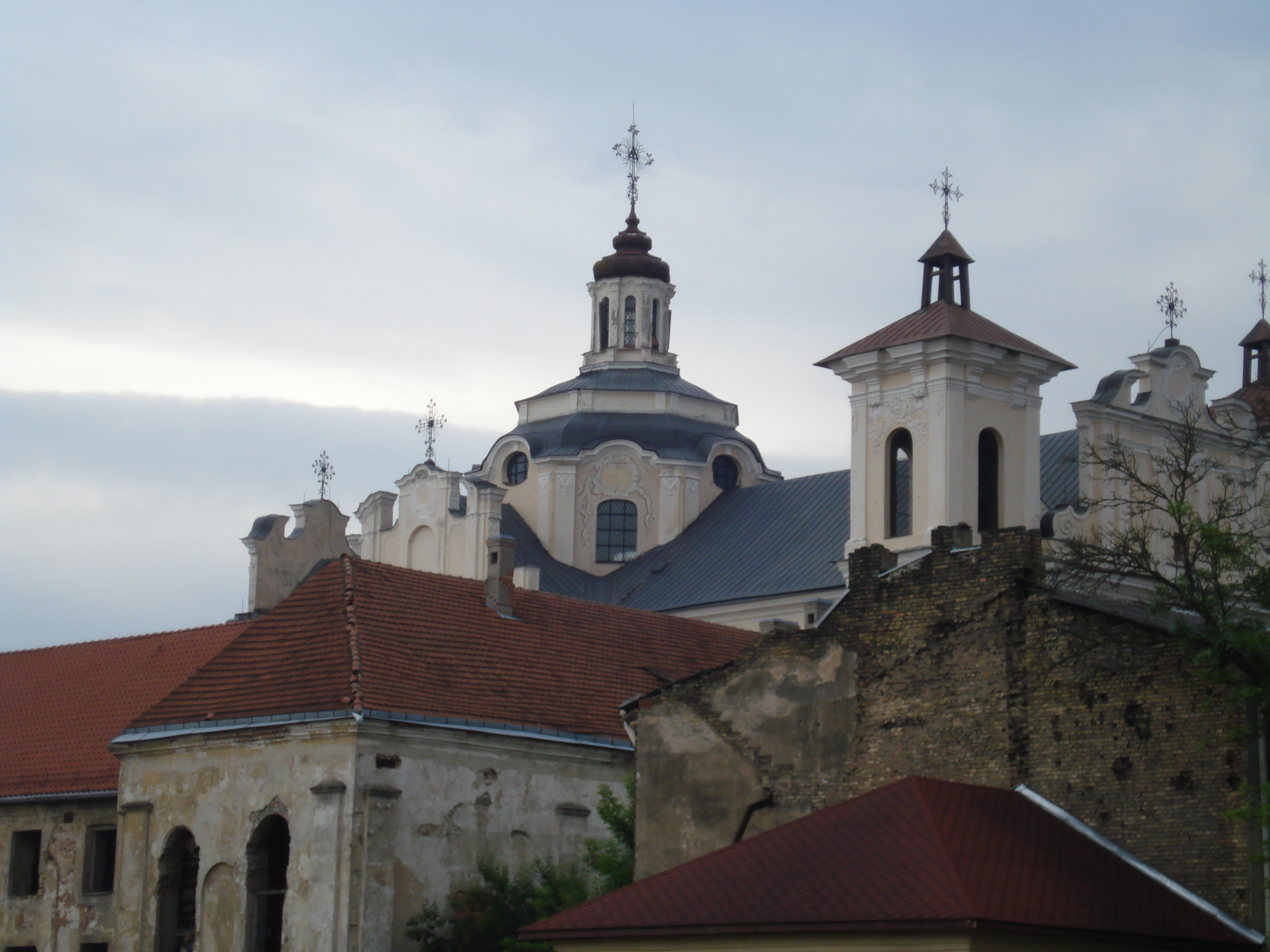 Church of the Holy Spirit in Vilnius